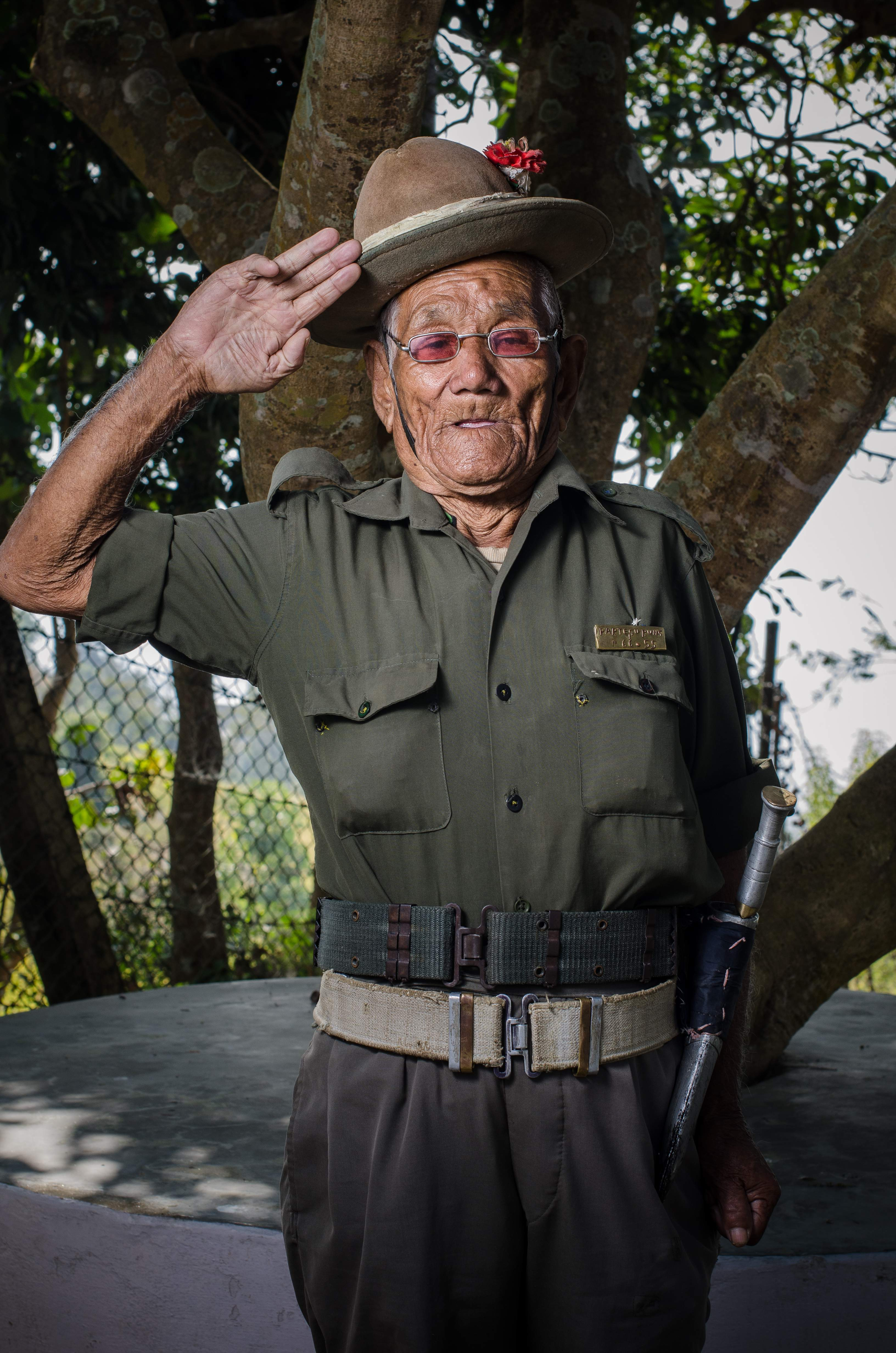 Rifleman Parte Gurung, a Welfare Pensioner receiving aid from The Gurkha Welfare Trust